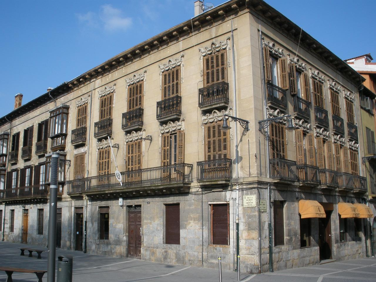 Consulado italiano en Pamplona (Calle Taconera). Navarra, España